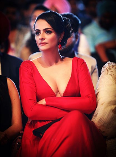 Prachitehlan